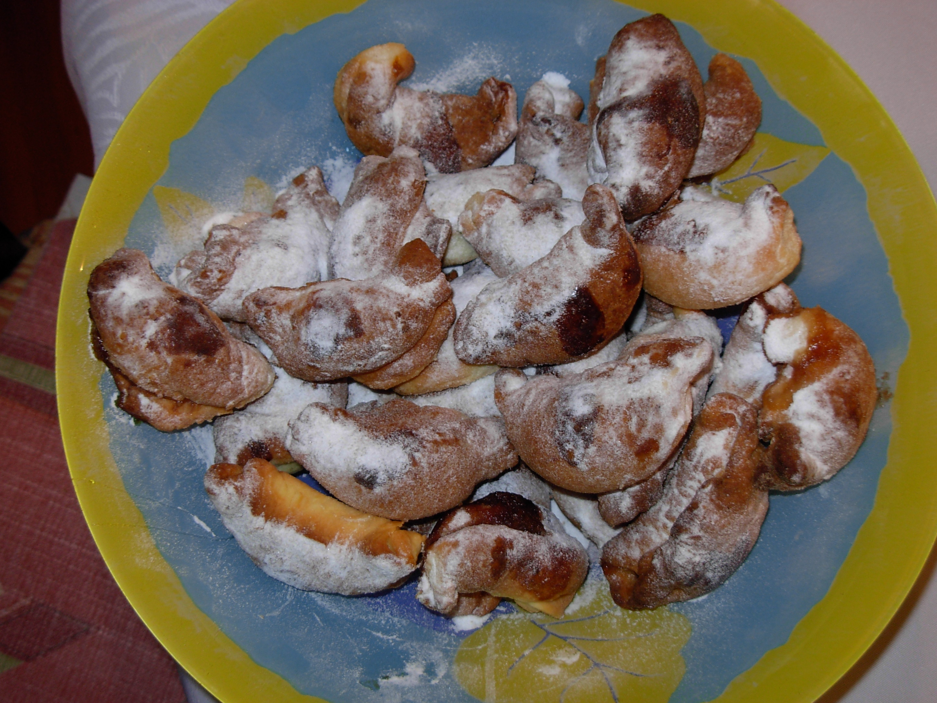 Rożki Polish cake. Photo by myself.